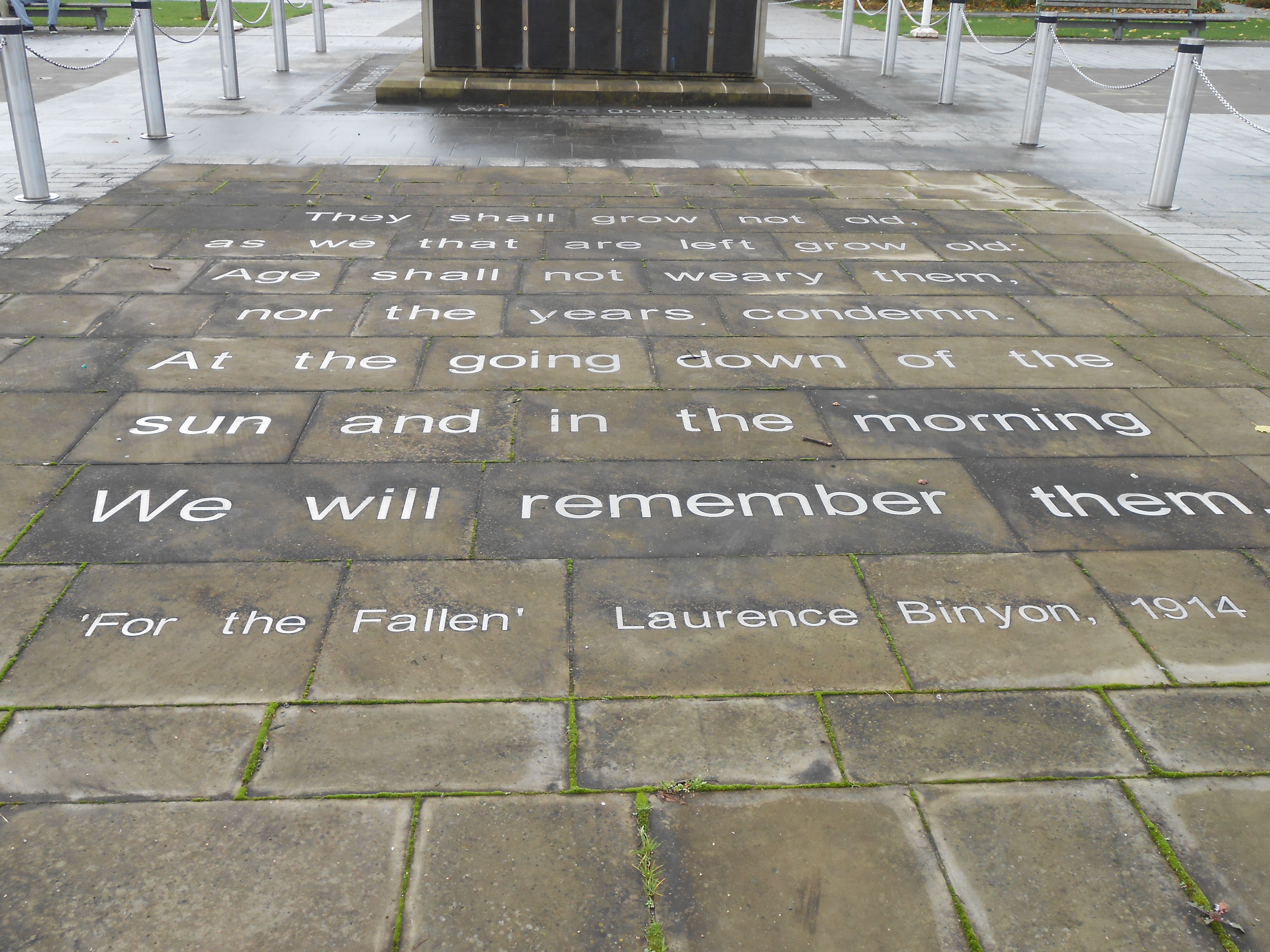 Photo taken at Crewe War Memorial, Cheshire, England.